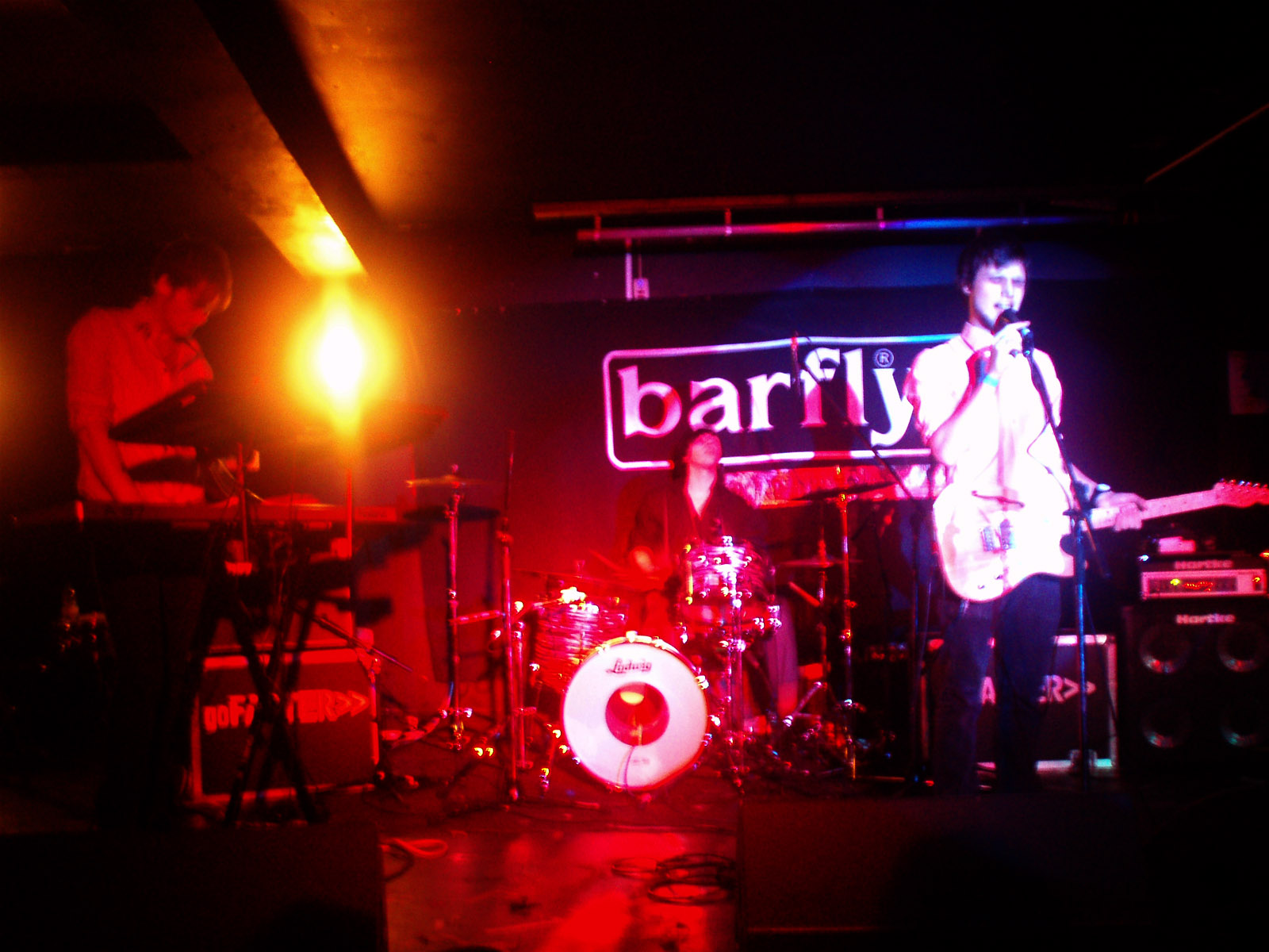 At the Barfly in Brighton, 21/02/08.